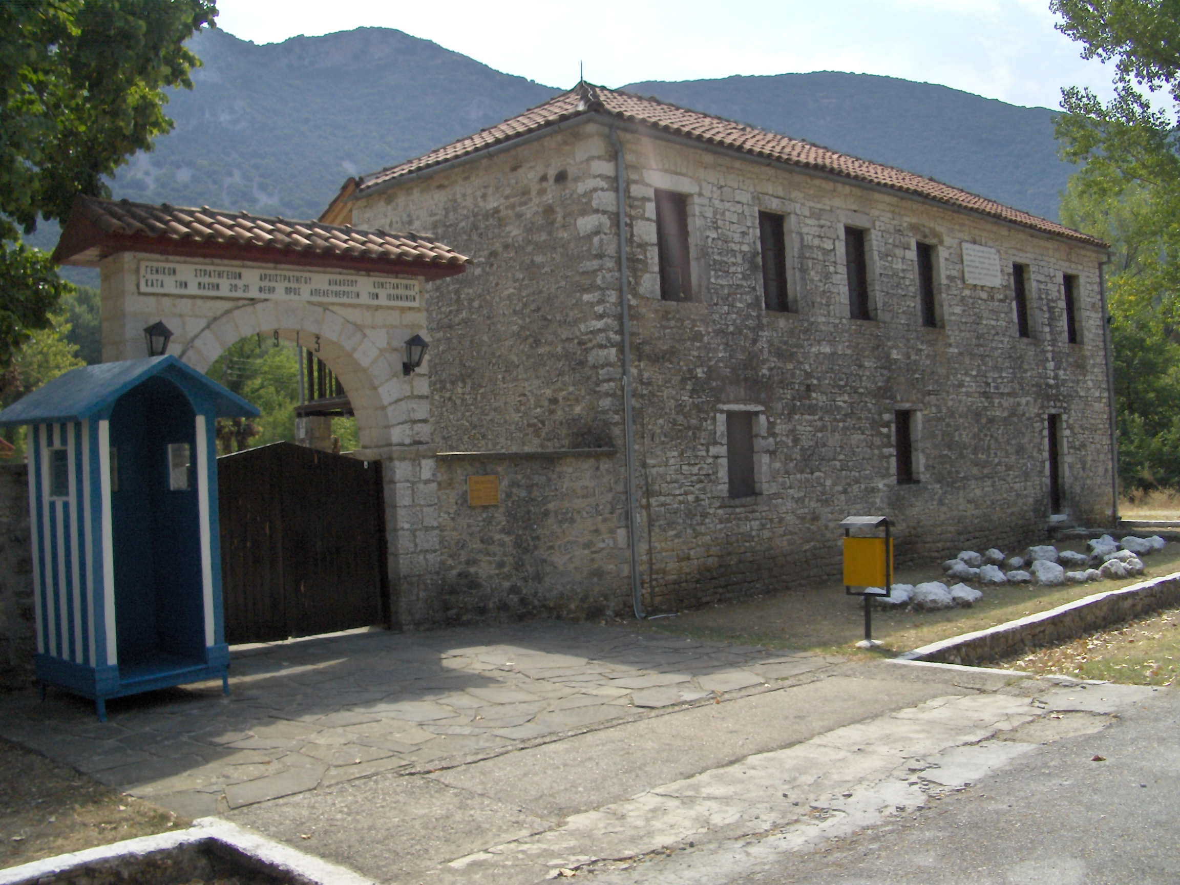 Outside view of the headquarters at Emin Agha Inn (1912-1913 War Museum, Ioannina, Greece)